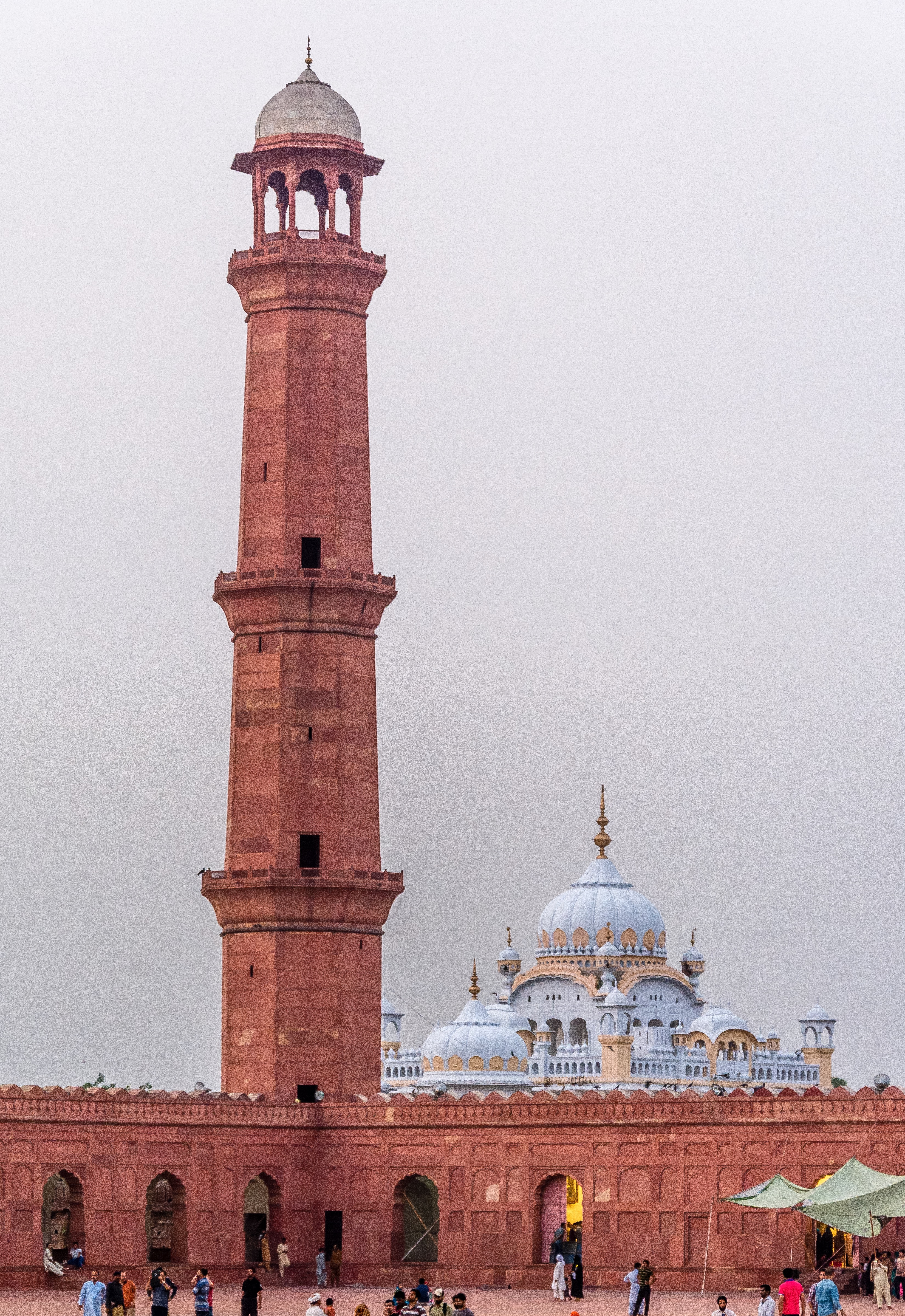 Samadhi of Ranjit Singh This is a photo of a monument in Pakistan identified as the PB-79